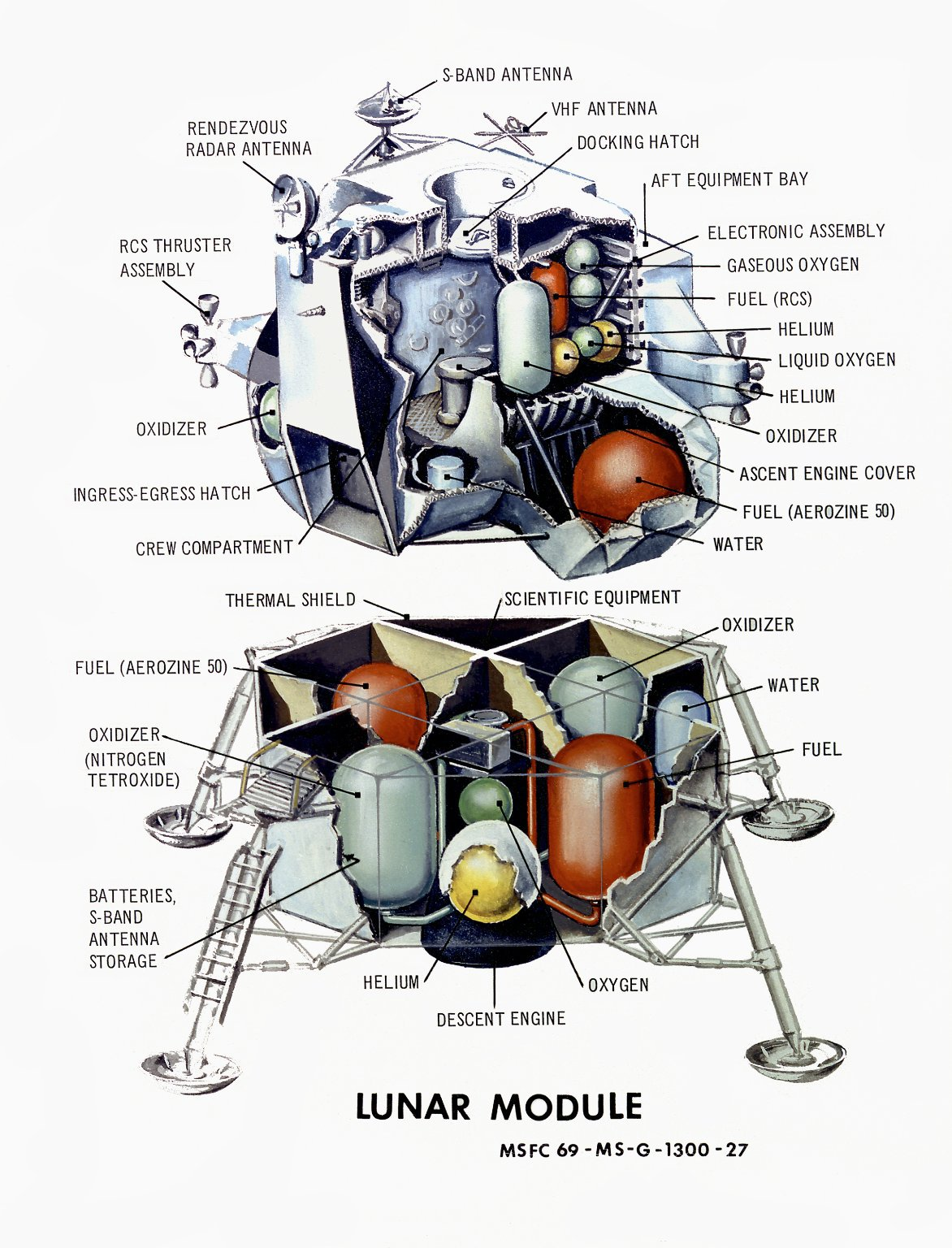 Lunar Module Illustration This concept is a cutaway illustration of the Lunar Module (LM) with detailed callouts. The LM was a two-part spacecraft. Its lower or descent stage had the landing gear, engines, and fuel needed for the landing. When the LM blasted off the Moon, the descent stage served as the launching pad for its companion ascent stage, which was also home for the two astronauts on the surface of the Moon. The LM was full of gear with which to communicate, navigate, and rendezvous. It also had its own propulsion system, and an engine to lift it off the Moon and send it on a course toward the orbiting Command Module.)